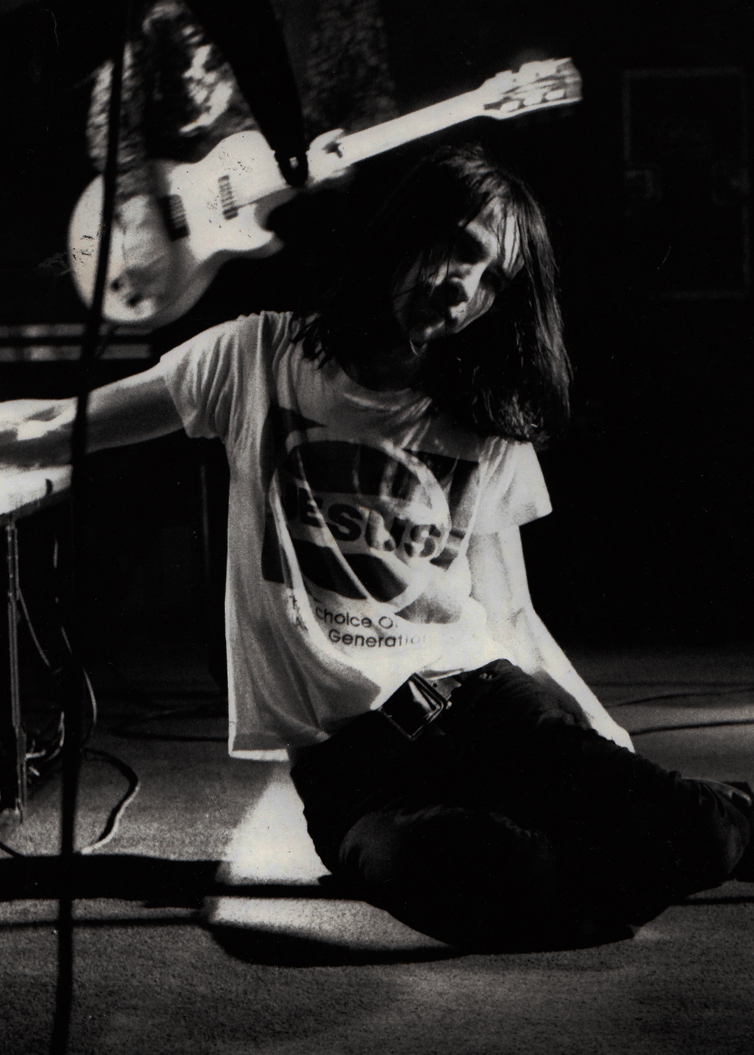 Taken 'Primal Scream' LP period. I think the venue was Walsall Working Men's Club / Social Club.